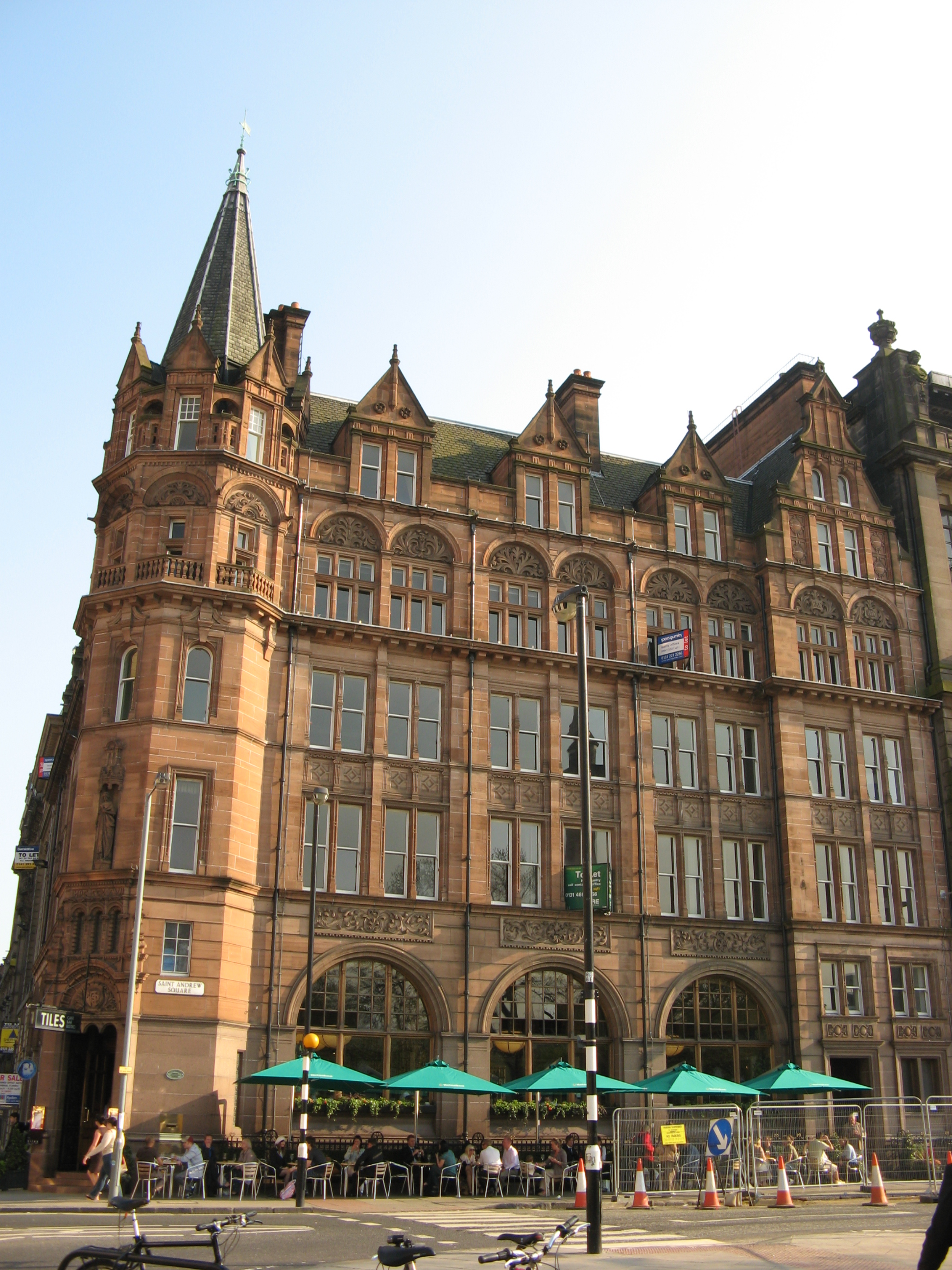 1 and 2 St Andrew Square, Edinburgh. Built 1895 for Prudential Assurance, by architects Alfred Waterhouse and Son.